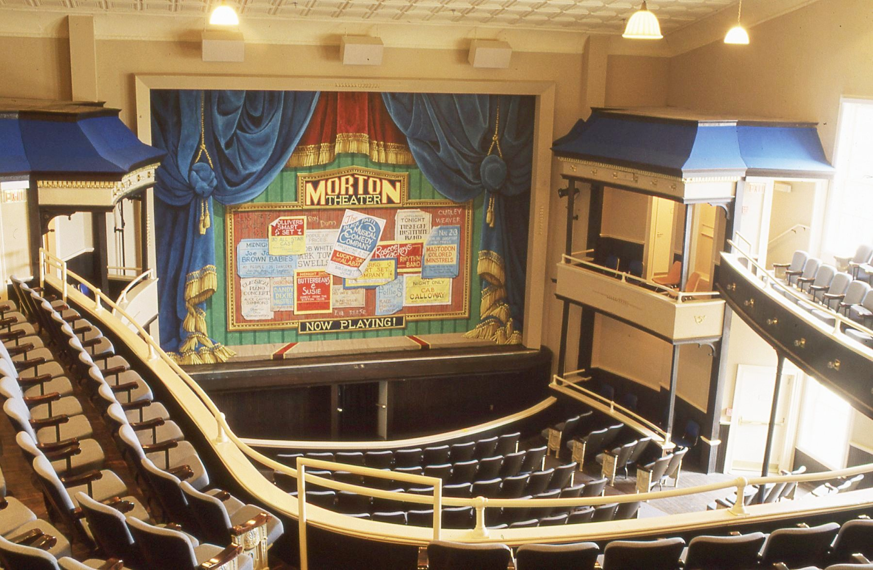 Morton Theatre Interior